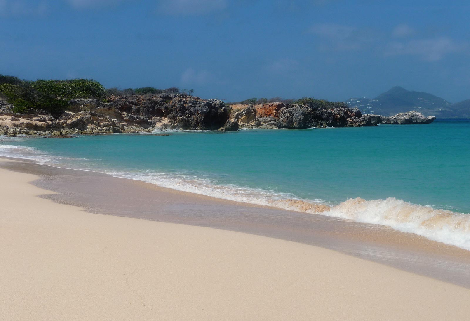 Choose quickly: spend a Wednesday morning in meetings or teleconferences in an office, or here on a deserted island in the French West Indies? Did it take you long to decide?